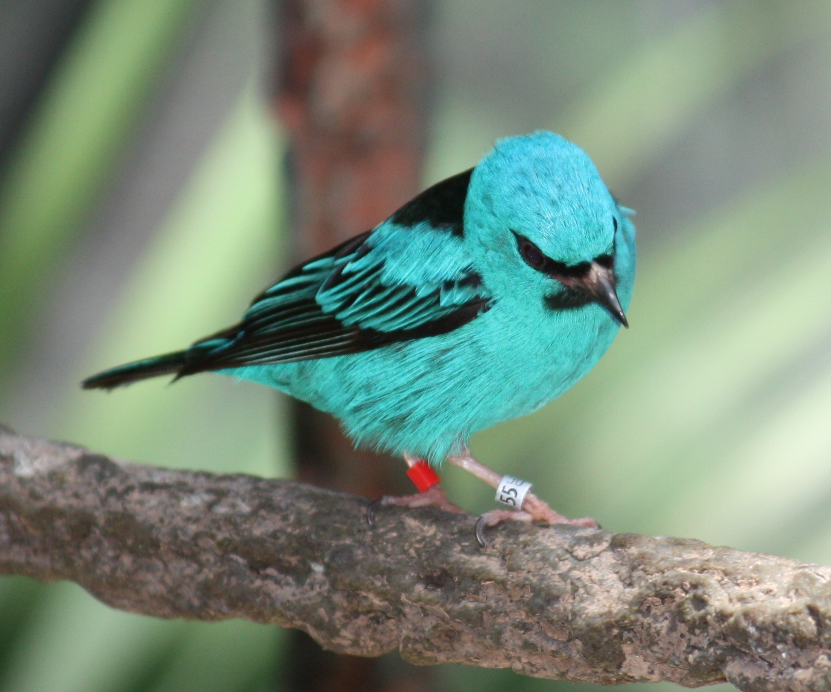 Blue Dacnis Dacnis cayana at Louisville Zoo